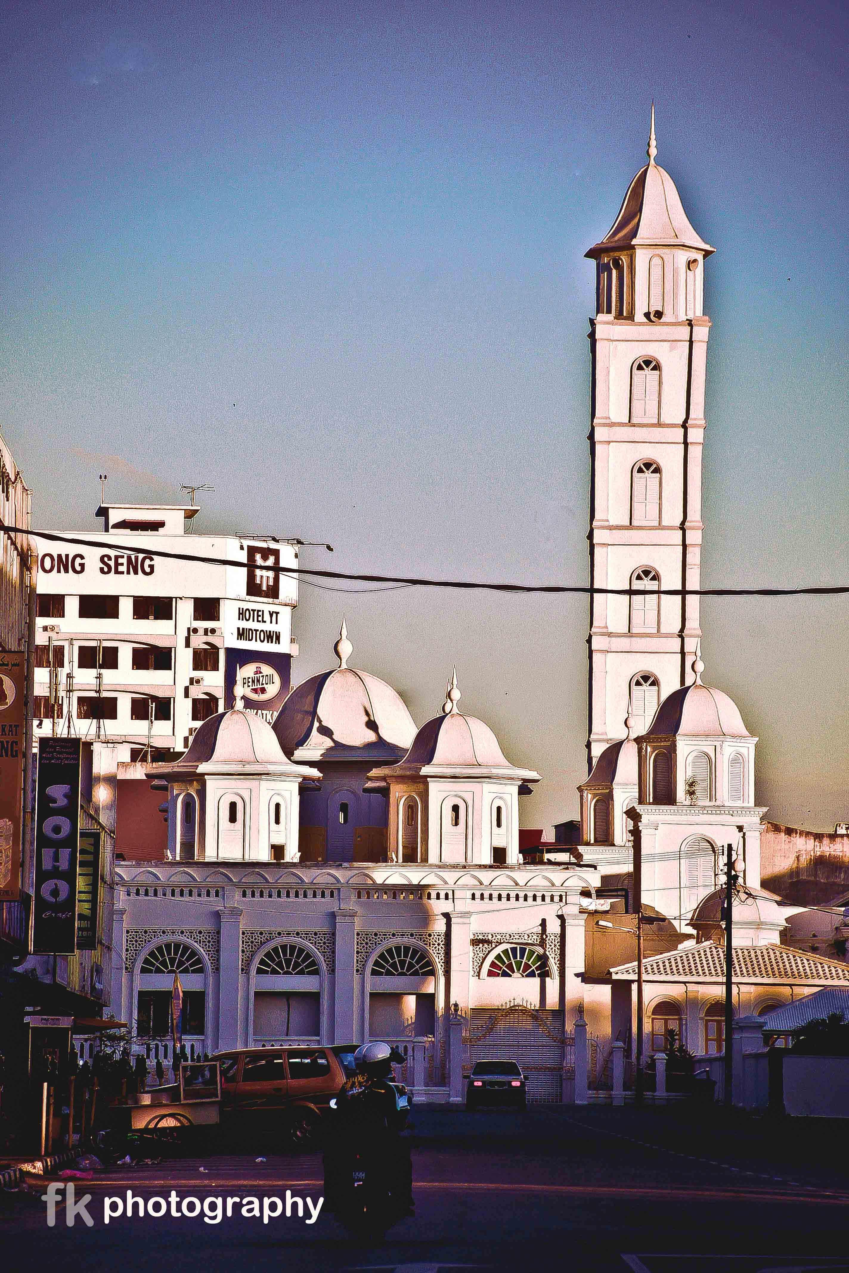 Abidin Mosque